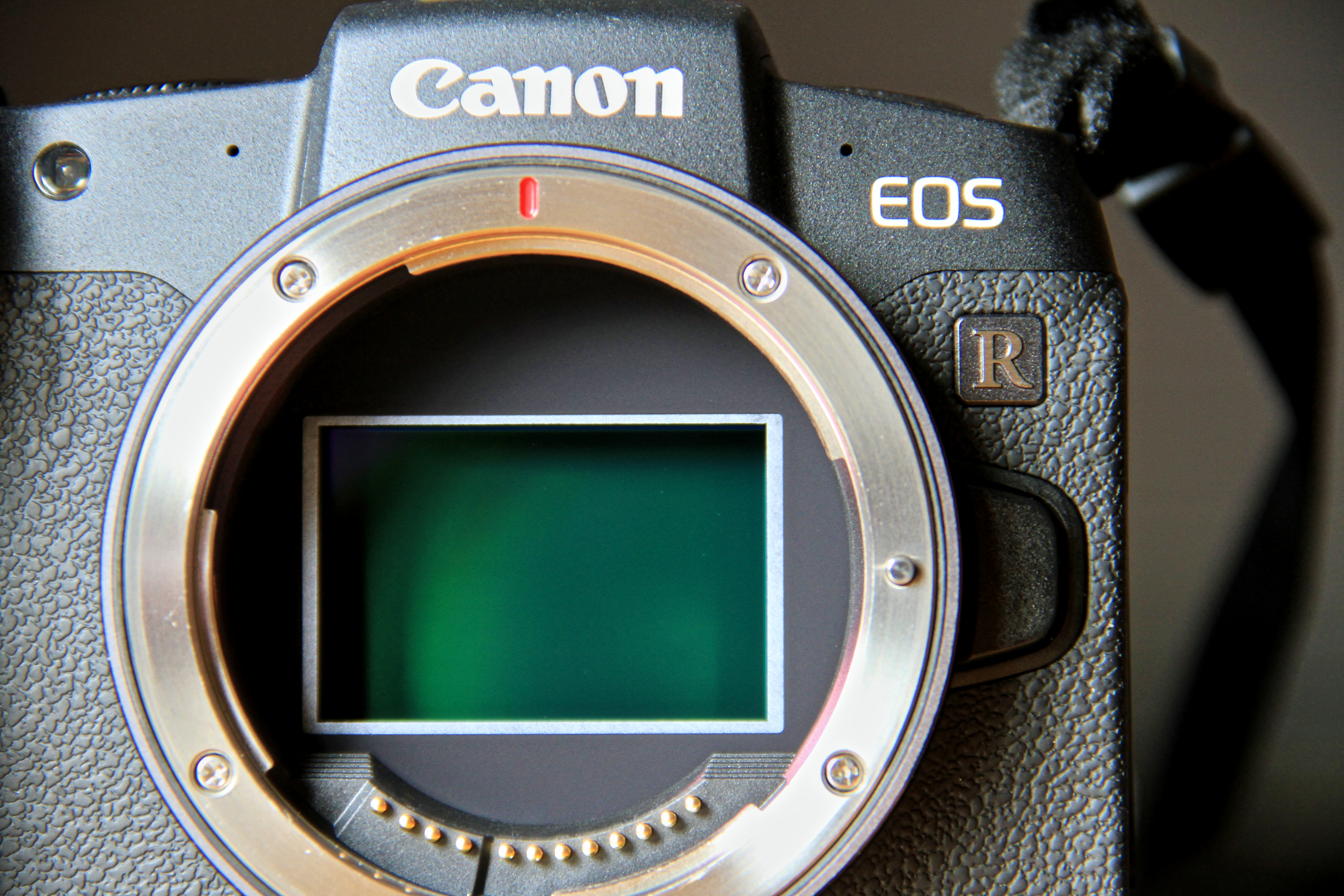 26.2 MP CMOS full-frame sensor of Canon mirrorless RP camera